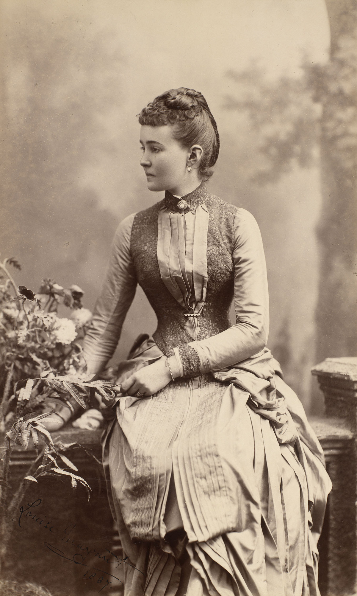 Princess Louise Margaret, Duchess of Connaught (1860-1917)